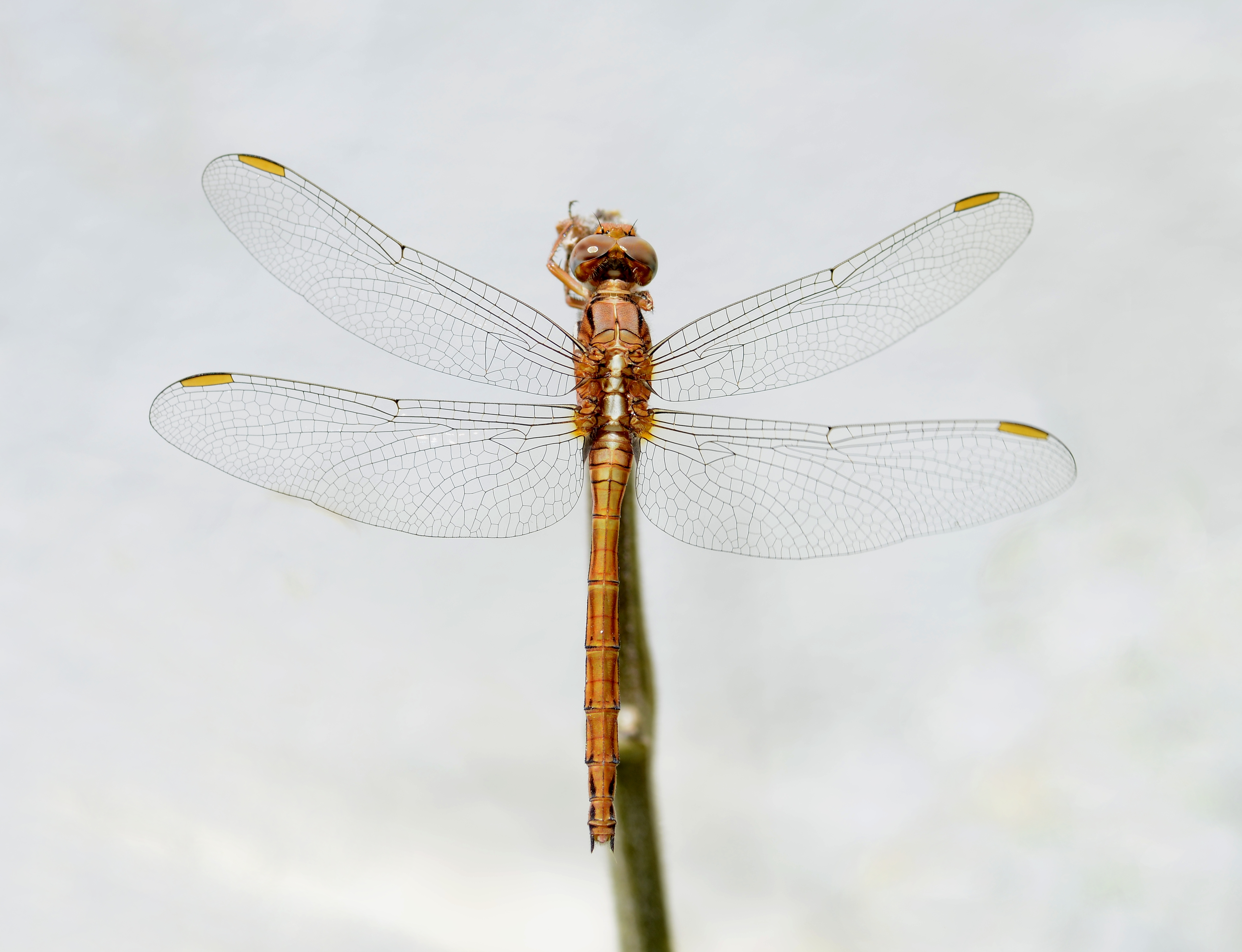 Female Keeled skimmer (Orthetrum coerulescens). Porto Covo, Portugal